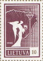 Definitive issue.Angel and map. Date of issue: 22nd December 1990 Miniature Sheets Designer: V. Skabeikiene Paper: thick off-white vertically-laid without gum Printing process: offset Perforation: imperforated (simulated perforation) Size of a stamp: 25 x 31 mm Size of a Miniature Sheet: 142 x 199 mm Sheet composition: 16 stamps + 4 labels (5 x 4) Printing run: No 461, 462, 464 - 1.500.000; No 463 - 2.500.000 Michel catalogue numbers: 461-464 10 (k). deep reddish purple and drub. Angel and map